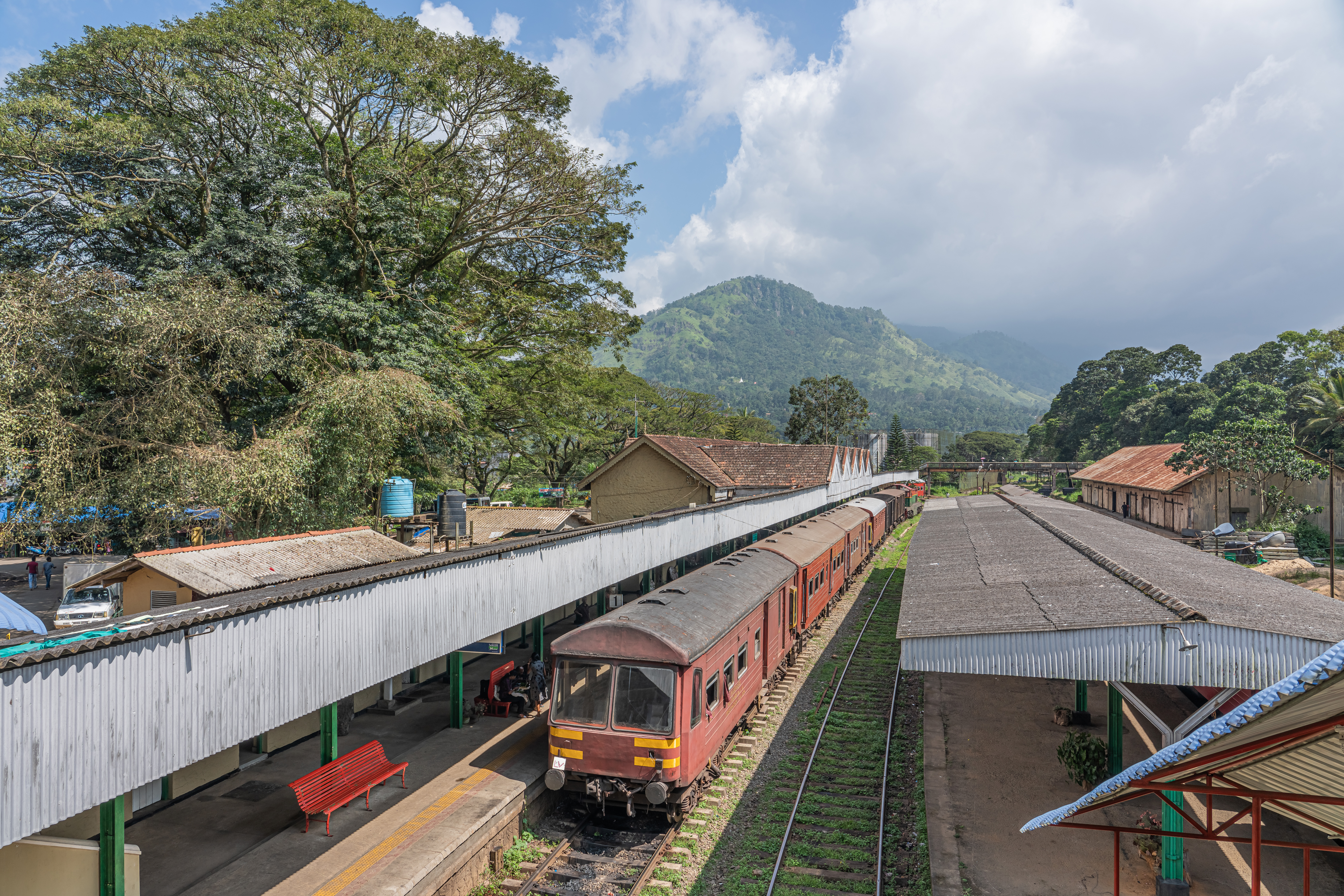 Railway station in Badulla, Sri Lanka